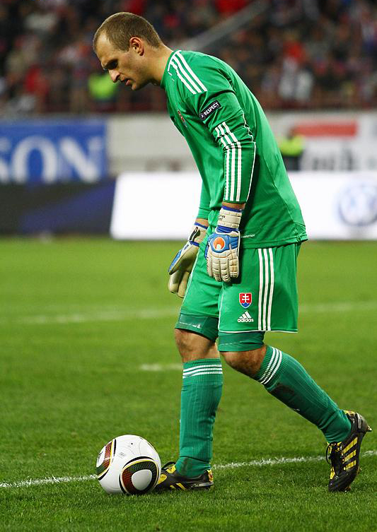 Jan Mucha with Slovakia national football team